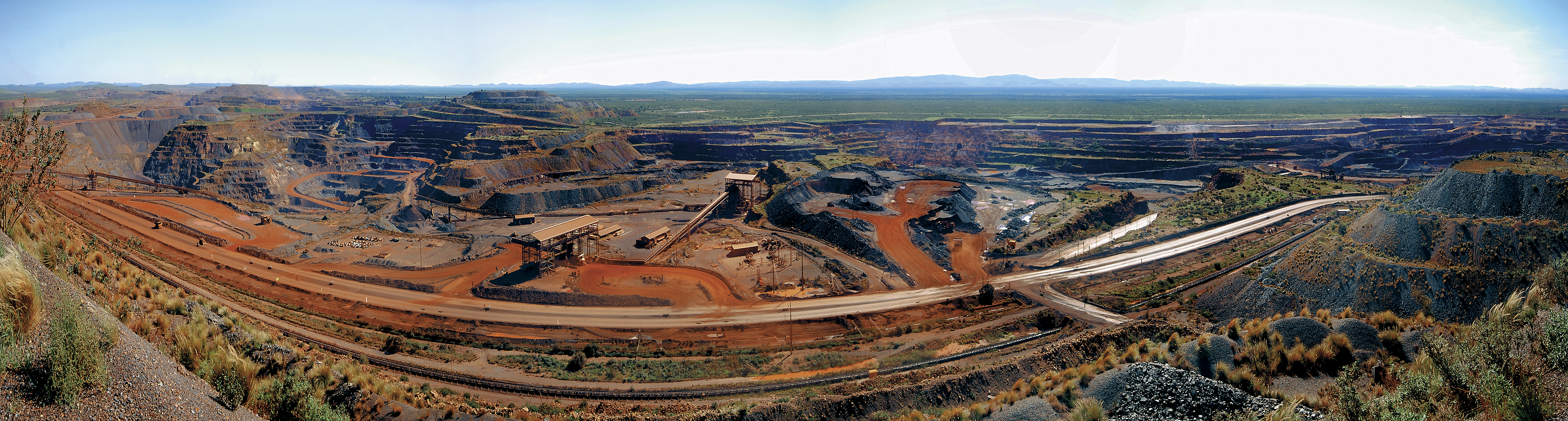 Panorama of Sishen Mine, a Kumba Iron Ore mine.